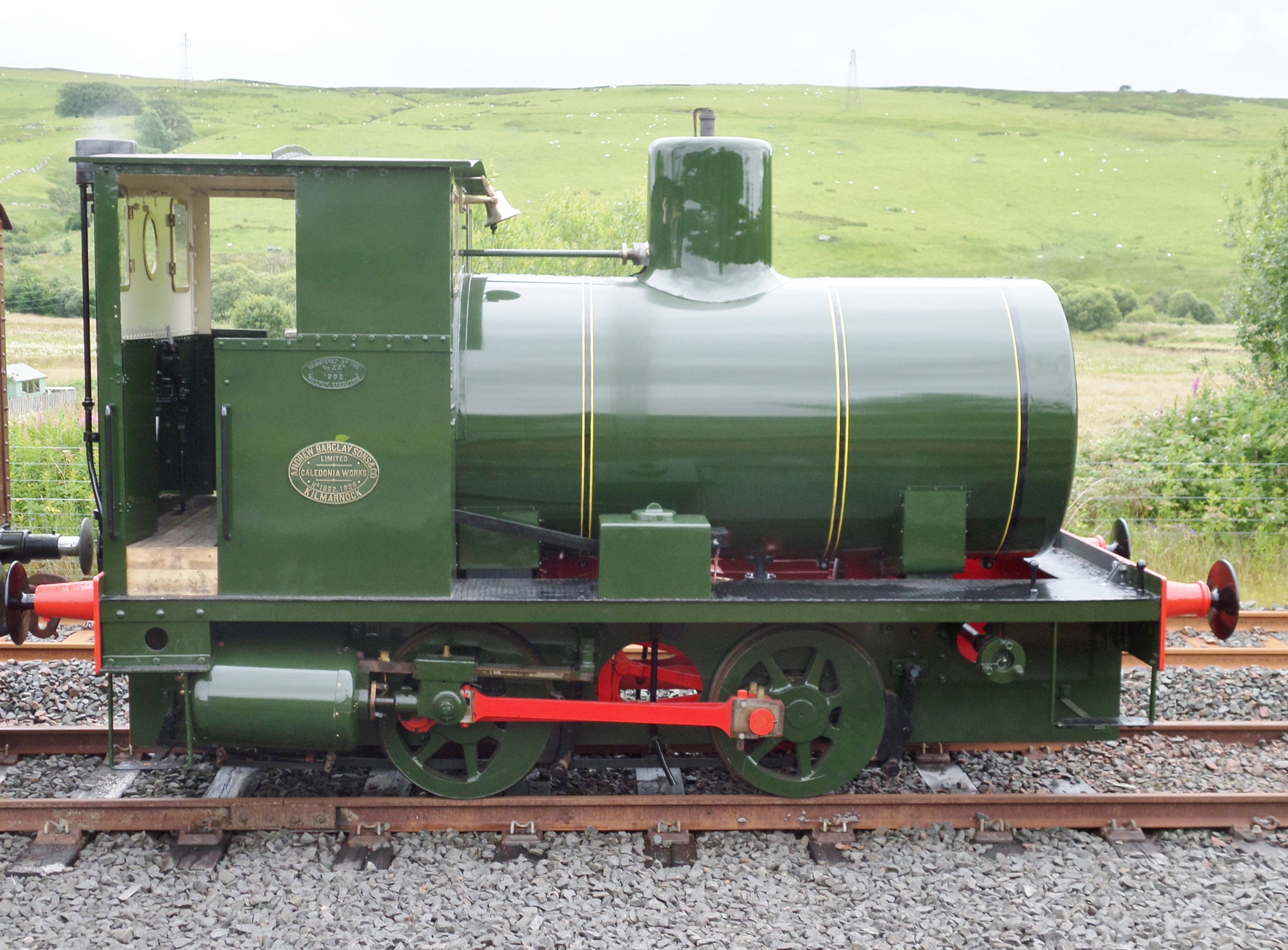 Andrew Barclay 0-4-0 fireless locomotive (Works Number 1952 of 1928) at Dunaskin, Waterside, East Ayrshire, Scotland. The locomotive was in working order.